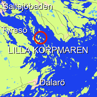 Lilla Korpmaren island